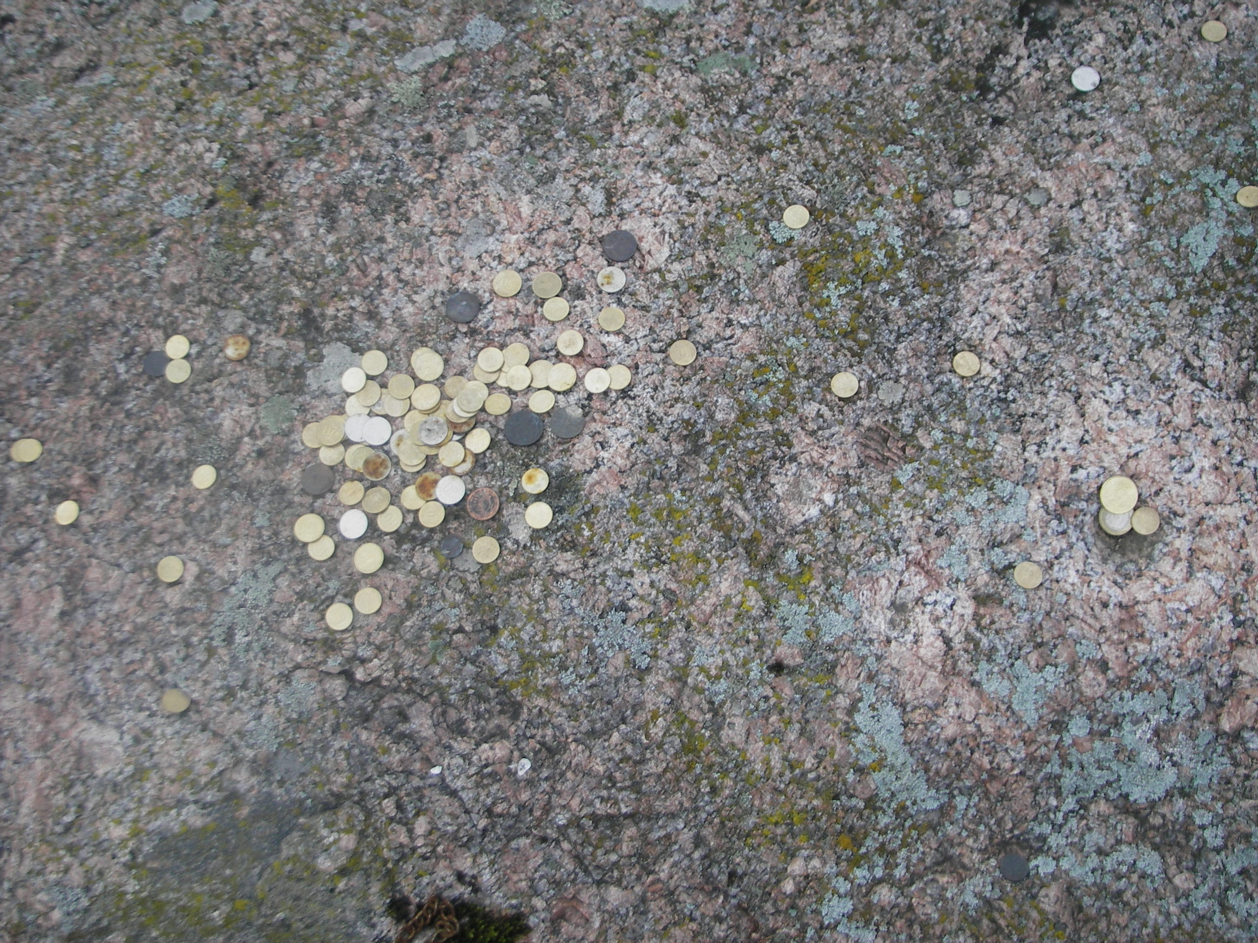 Mündid Aljava küla Kunnati kultuskivil,2011aasta